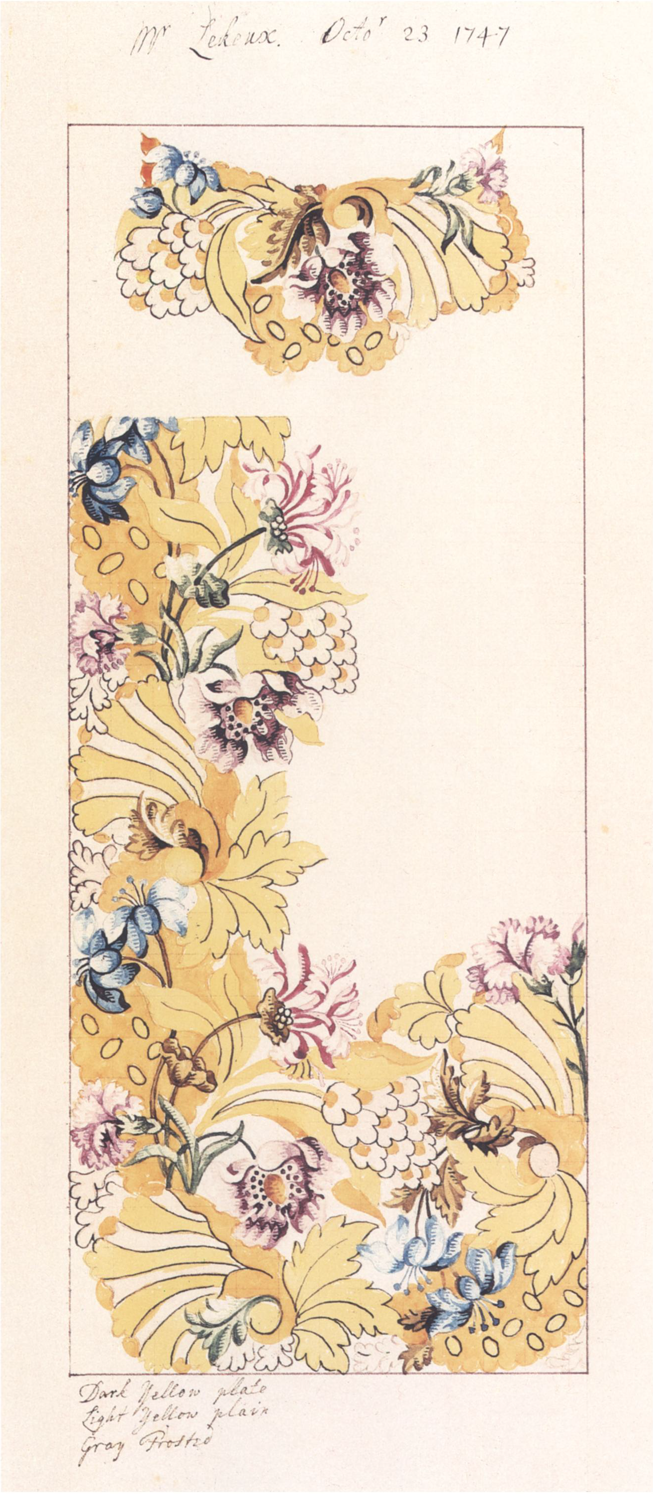 Design for a woven silk "shaped" for a waistcoat.